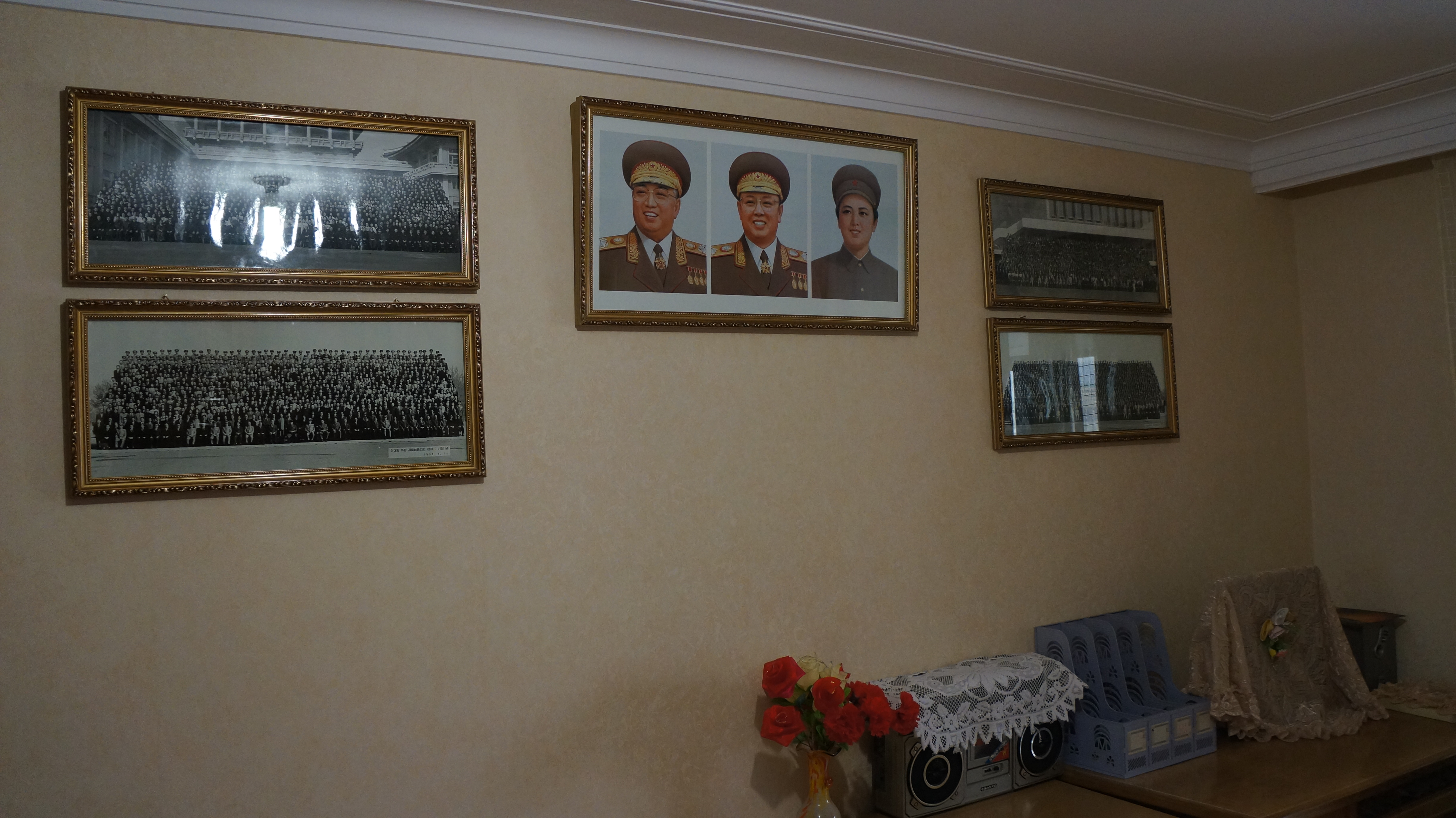 Kim Il Sung University professorial housing complex